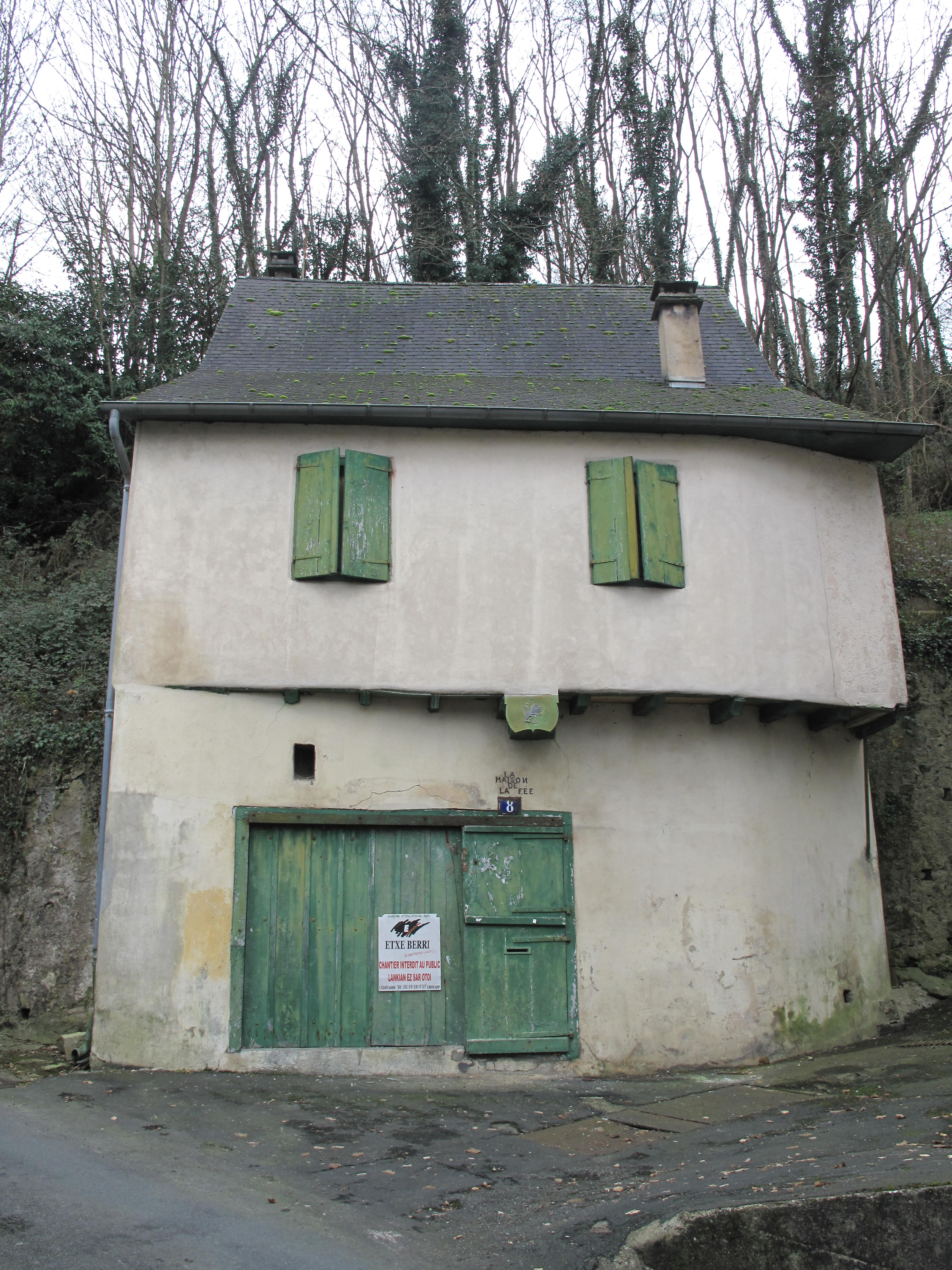 House named house of the fairy, 8 street of the castle in Mauléon-Licharre, (Pyrénées-Atlantiques, France).